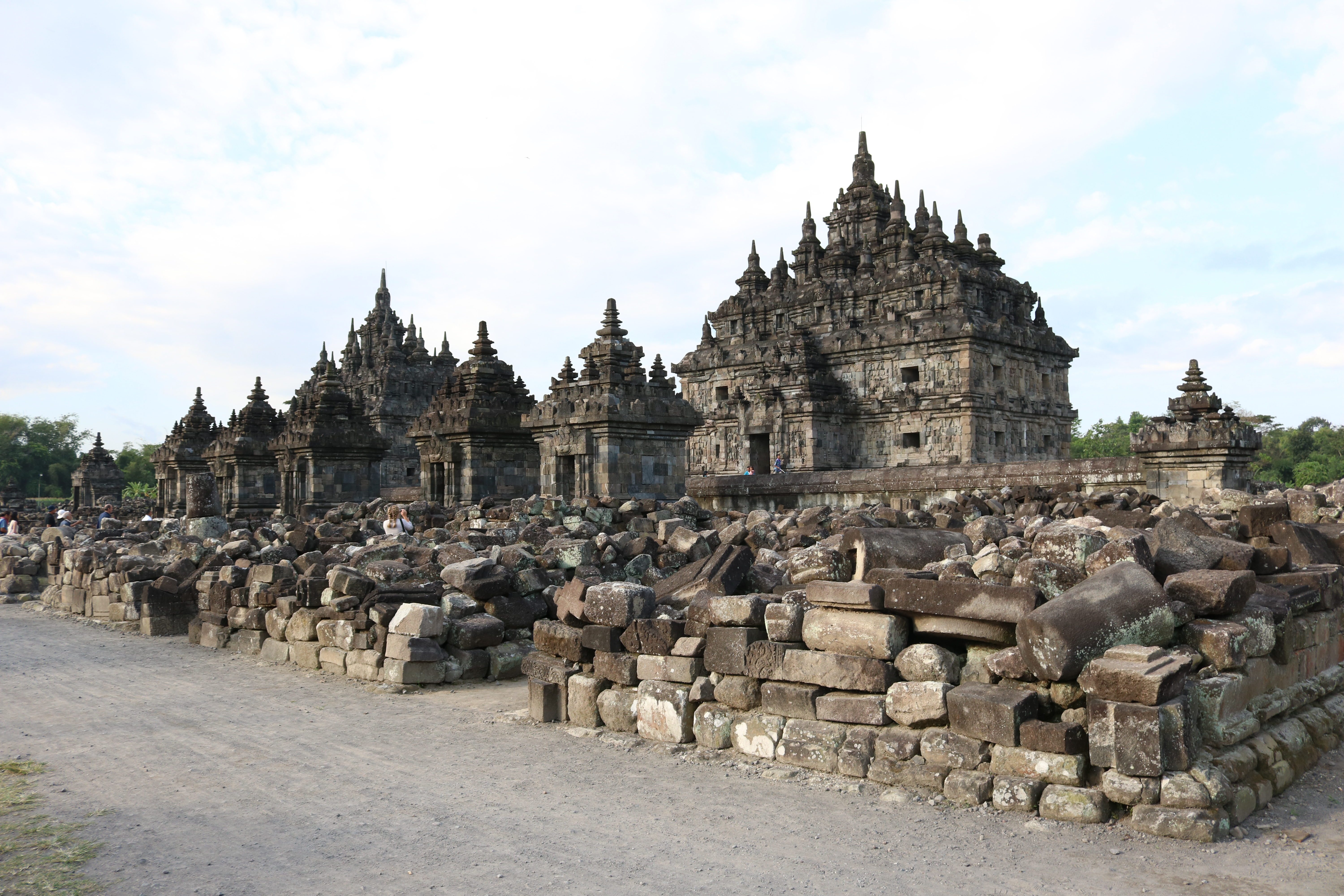 Candi Plaosan Lor (North Plaosan Temple) from Klaten, Central Java, Indonesia